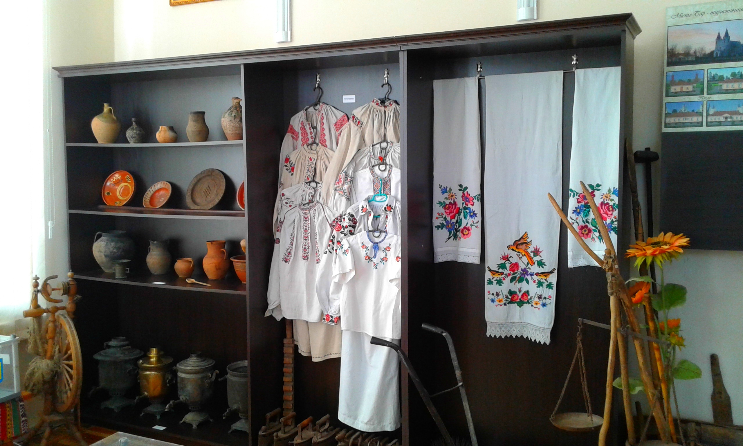 (03) WIKIPEDIA UKRAINIAN CULTURE OLD EXHIBITS AT BAR CITY HISTORY MUSEUM IN TOWN OF BAR VINNYTSIA REGION STATE OF UKRAINE